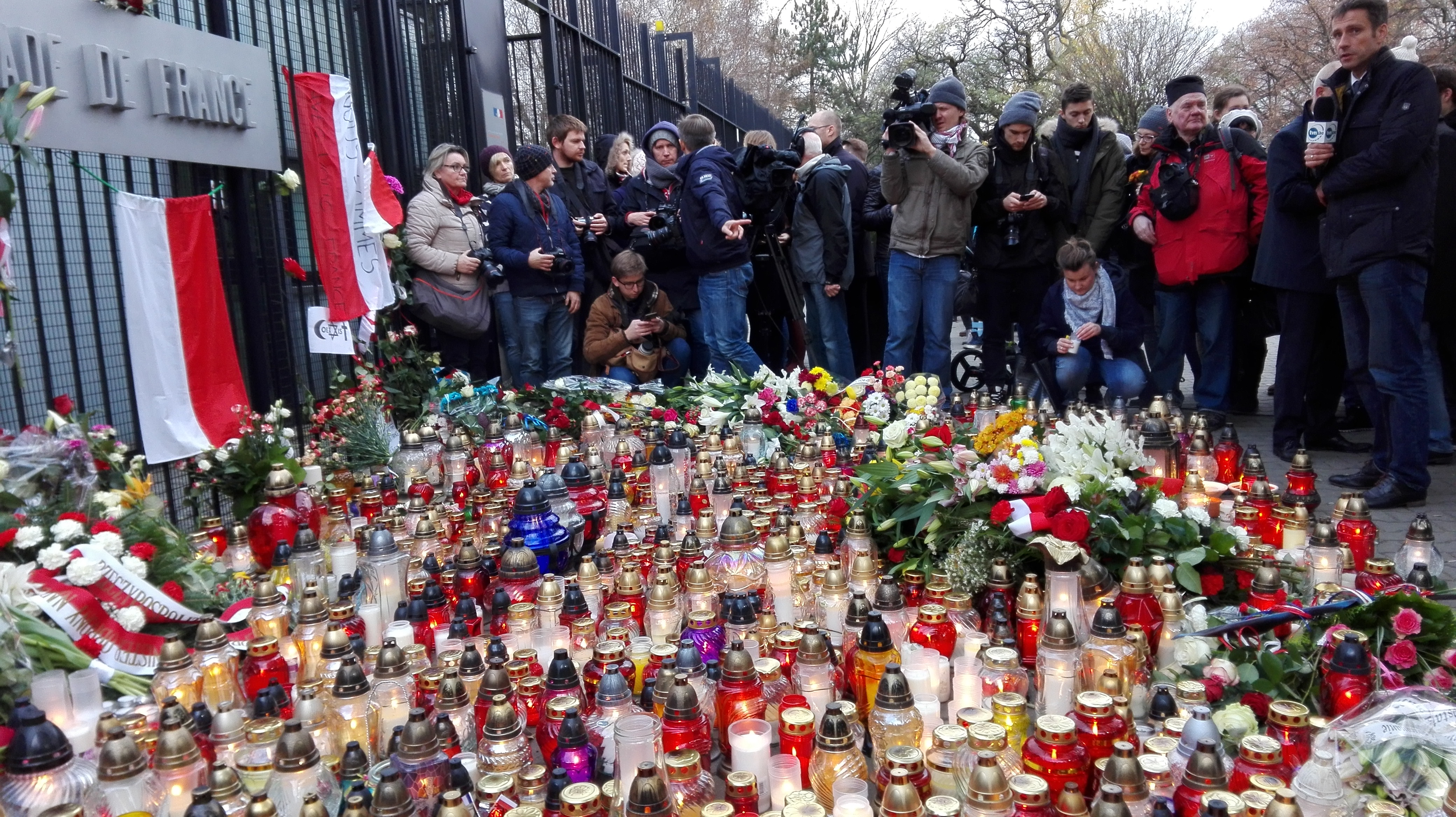 French Embassy in Warsaw on 2015-11-14, the day after the Paris attacks. There was a huge crowd of Varsovians lighting candles and leaving flowers in front of the building.